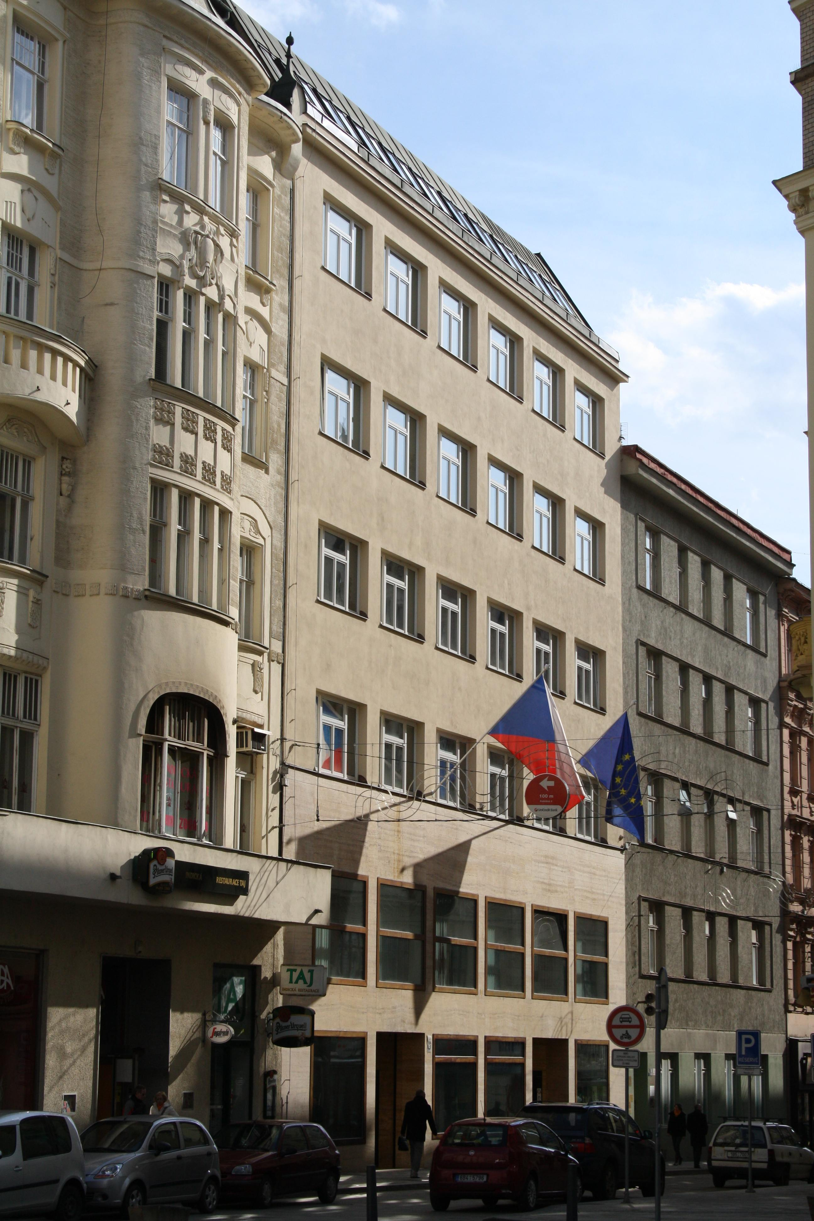 SZPI building in Brno.